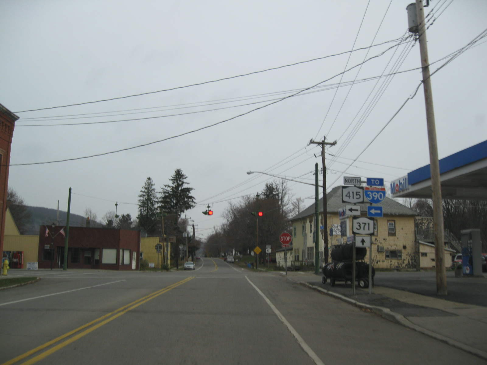 New York State Route 415 northbound at the intersection with New York State Route 371 in the village of Cohocton.